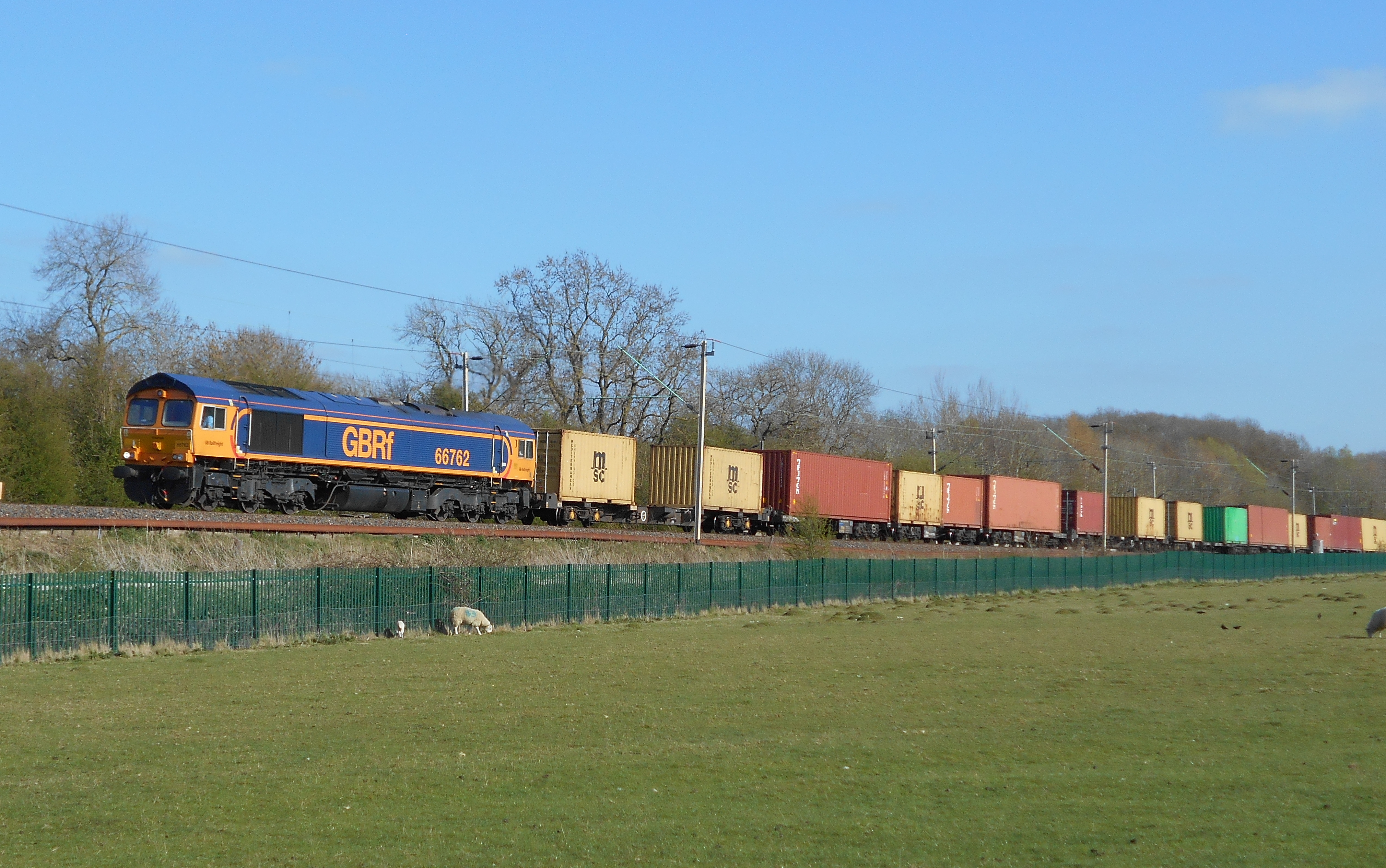 Northbound GBRF container train on the Northampton Loop between Rugby and Long Buckby.